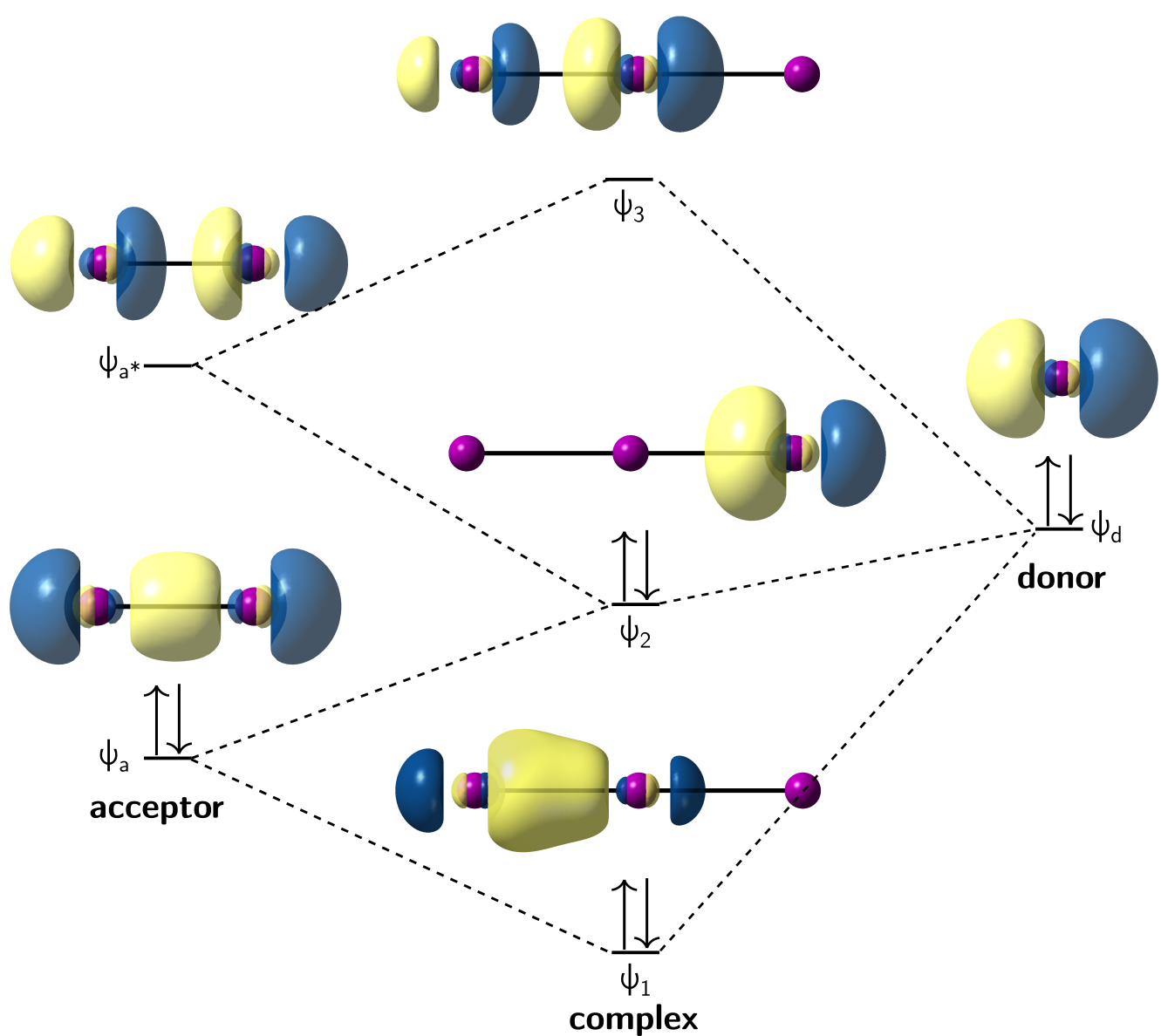 A donor-acceptor interaction diagram illustrating formation of the triiodide anion sigma natural bond orbitals.